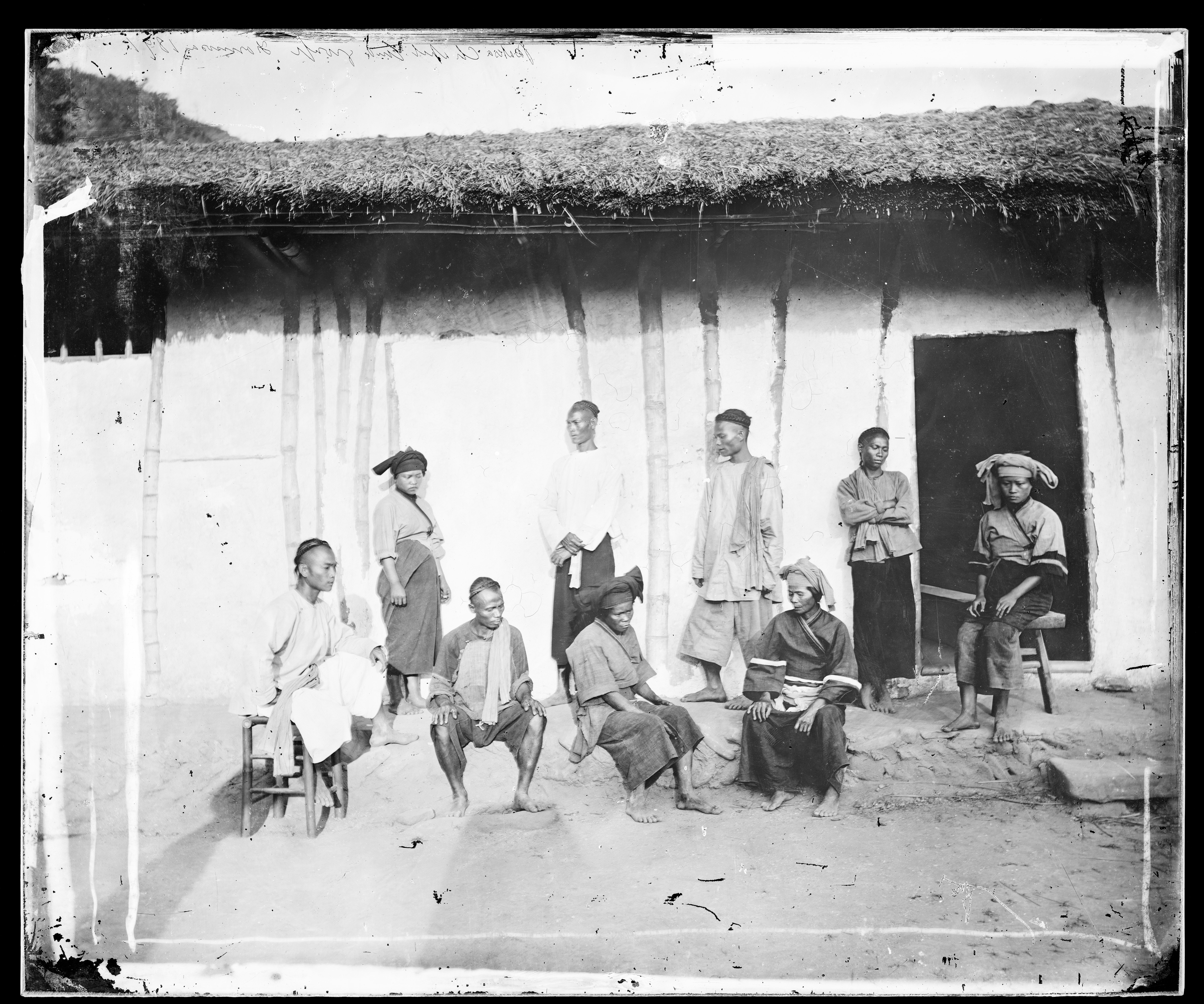 Formosa [Taiwan]. Photograph by John Thomson, 1871. Iconographic Collections Keywords: J. Thomson